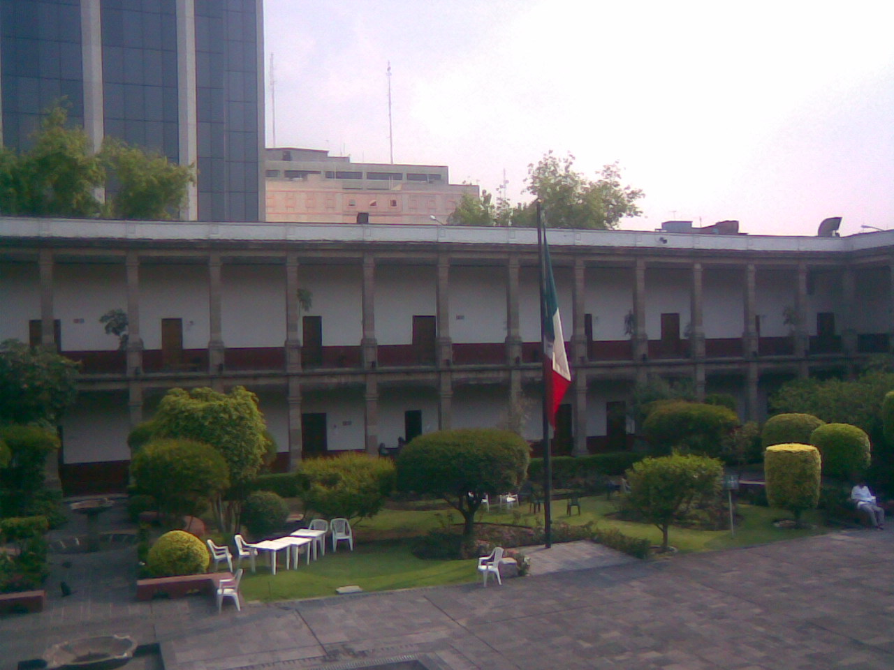 Gran Claustro's Yard in UCSJ